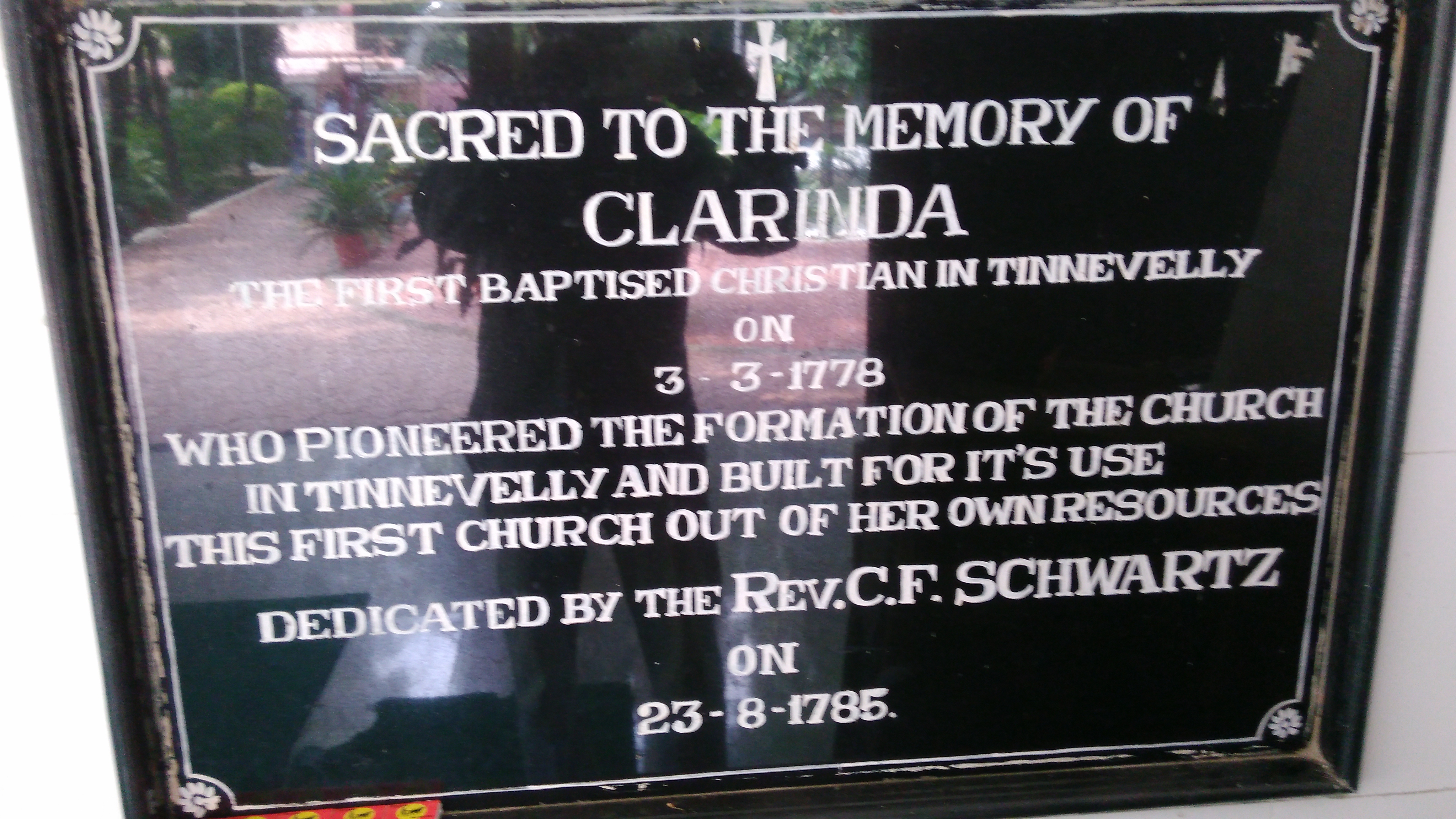 The plaque in Clarinda Church, Palayamkottai, commemorating the dedication in 1778.